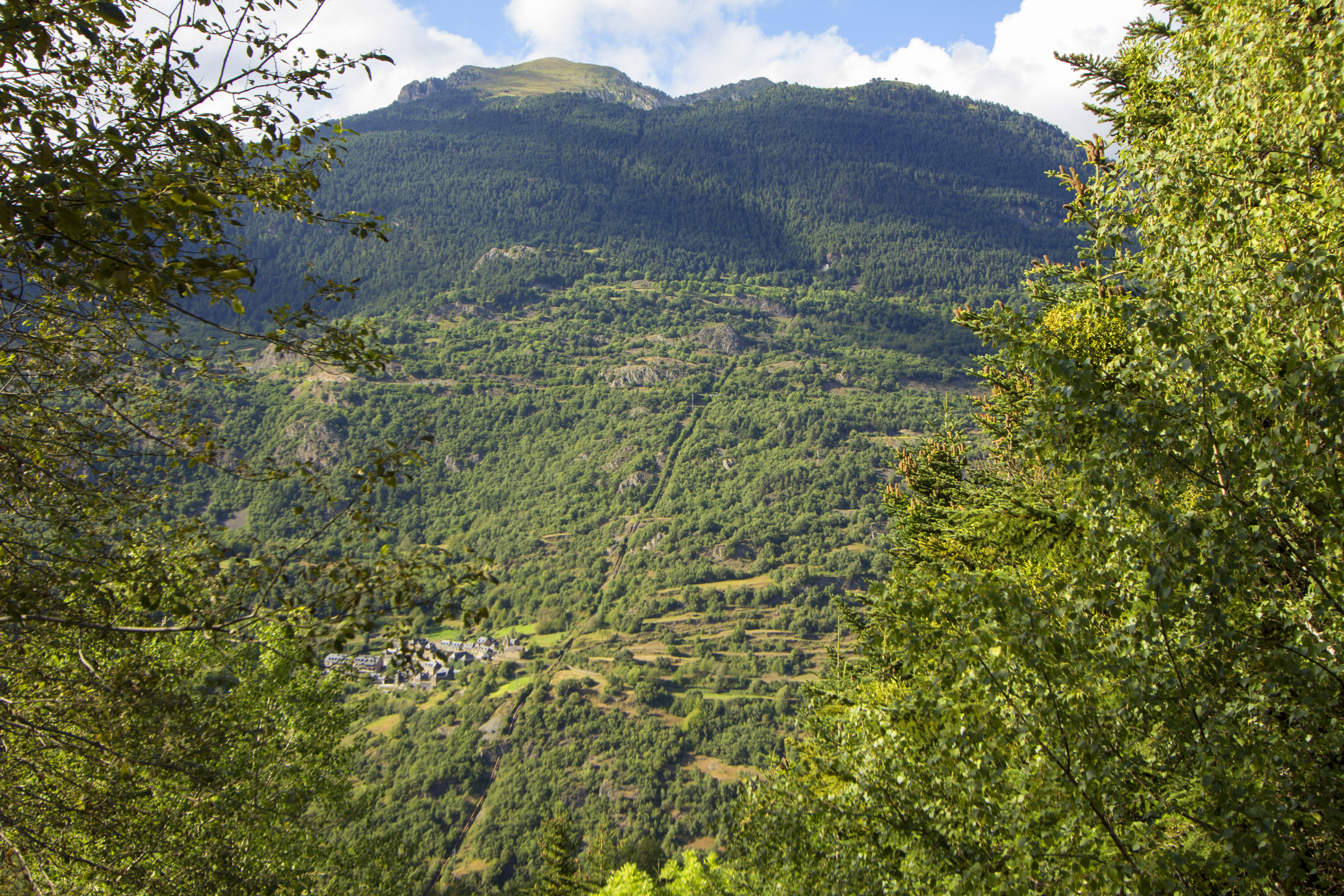 Varradòs penstock of the Benòs hydroelectric power plant, besides town of Begòs (Catalan Pyrenees)